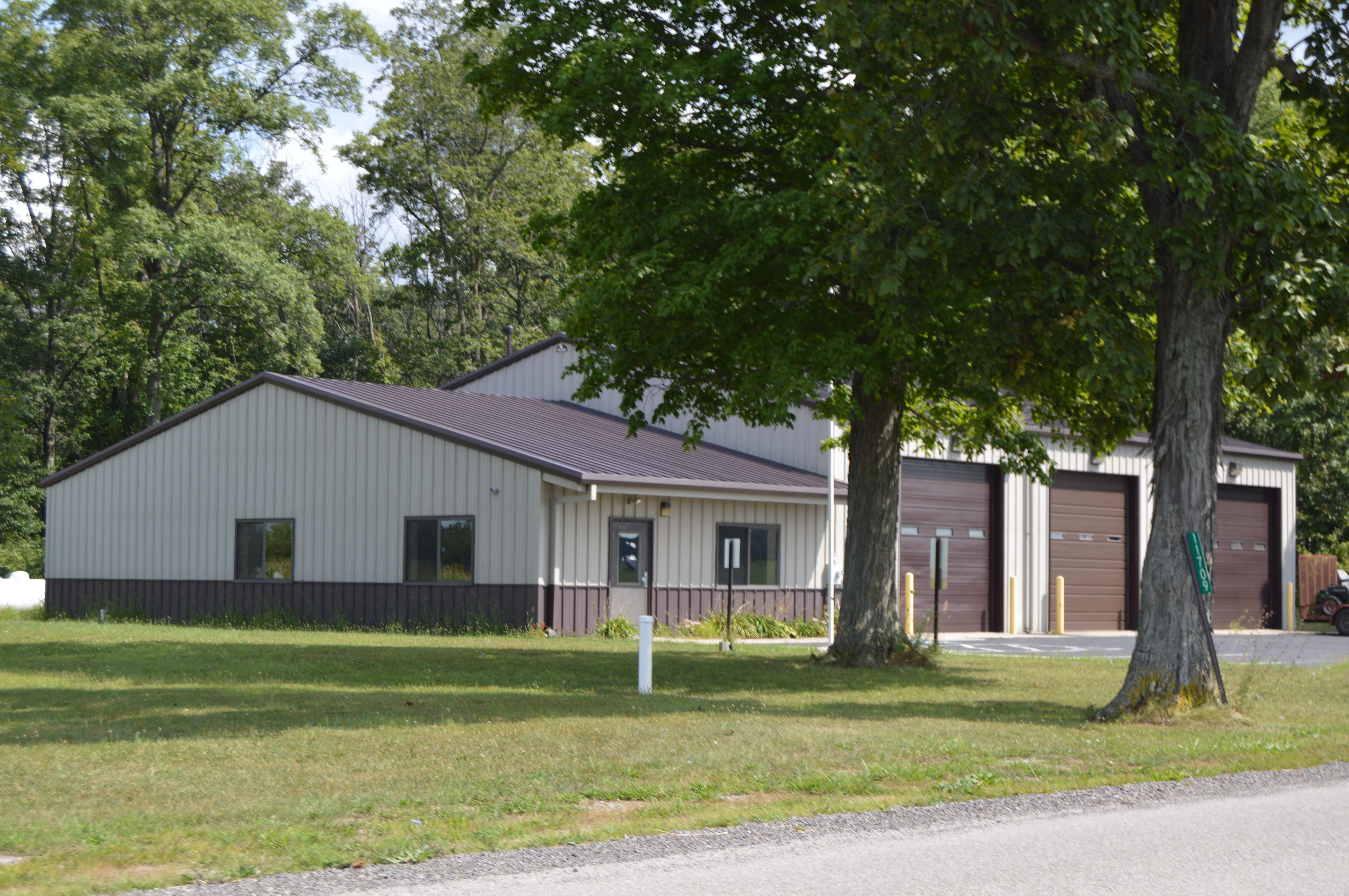 Western side and front of the administration building for Taylor Creek Township, located on the northeastern corner of the intersection of U.S. Route 68 and County Road 200 in Hardin County, Ohio, United States.